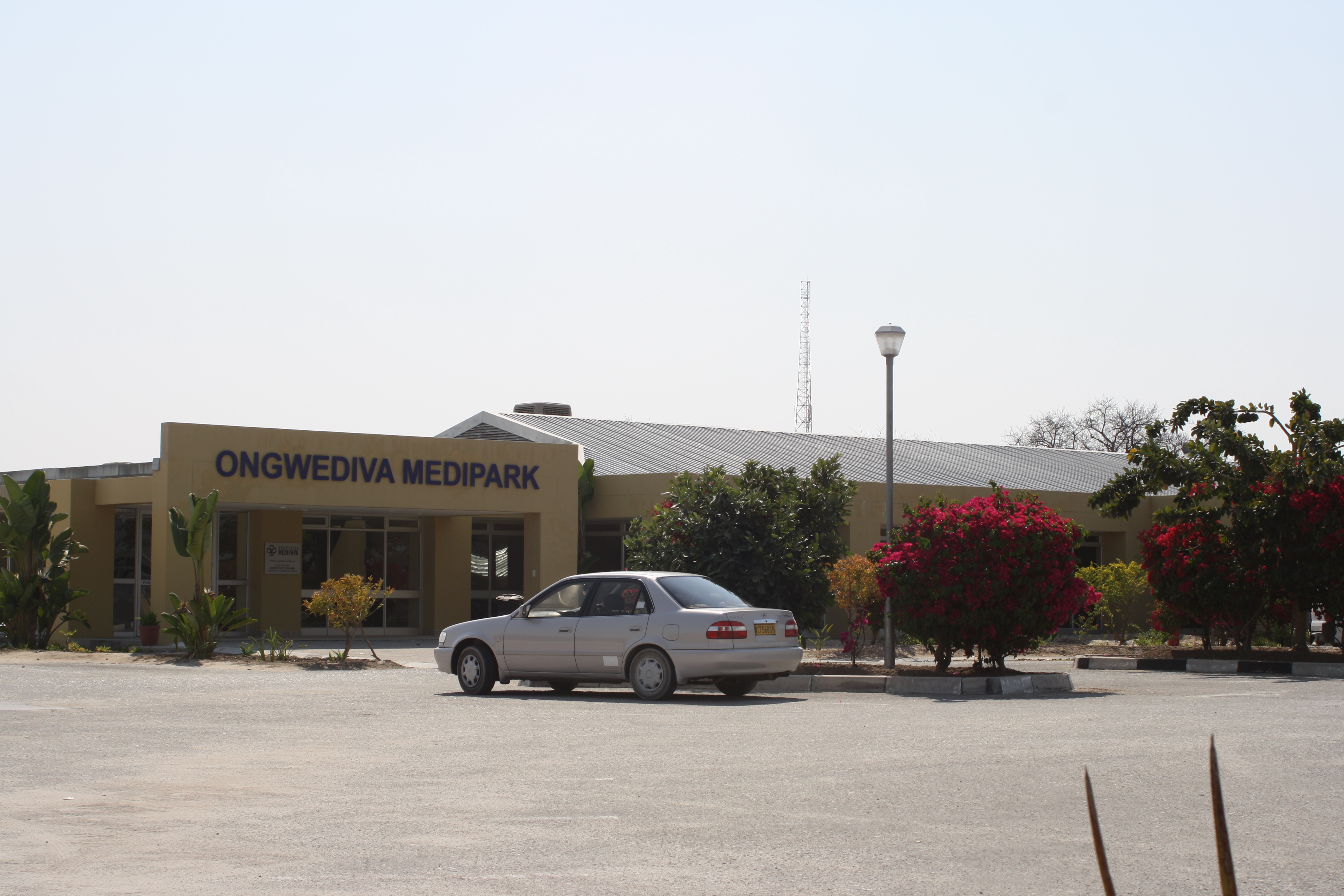 Ongwediva MediPark, Namibia